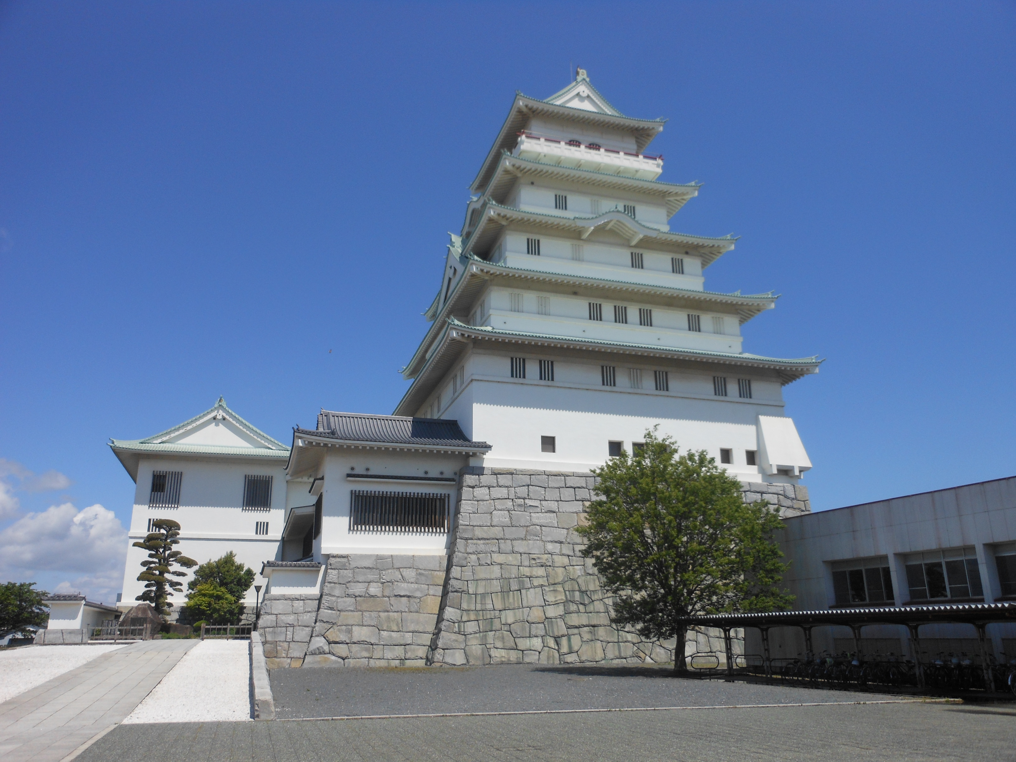 Joso City Regional Exchange Center, aka Toyoda Castle, in Joso City, Ibaraki Prefecture, Japan